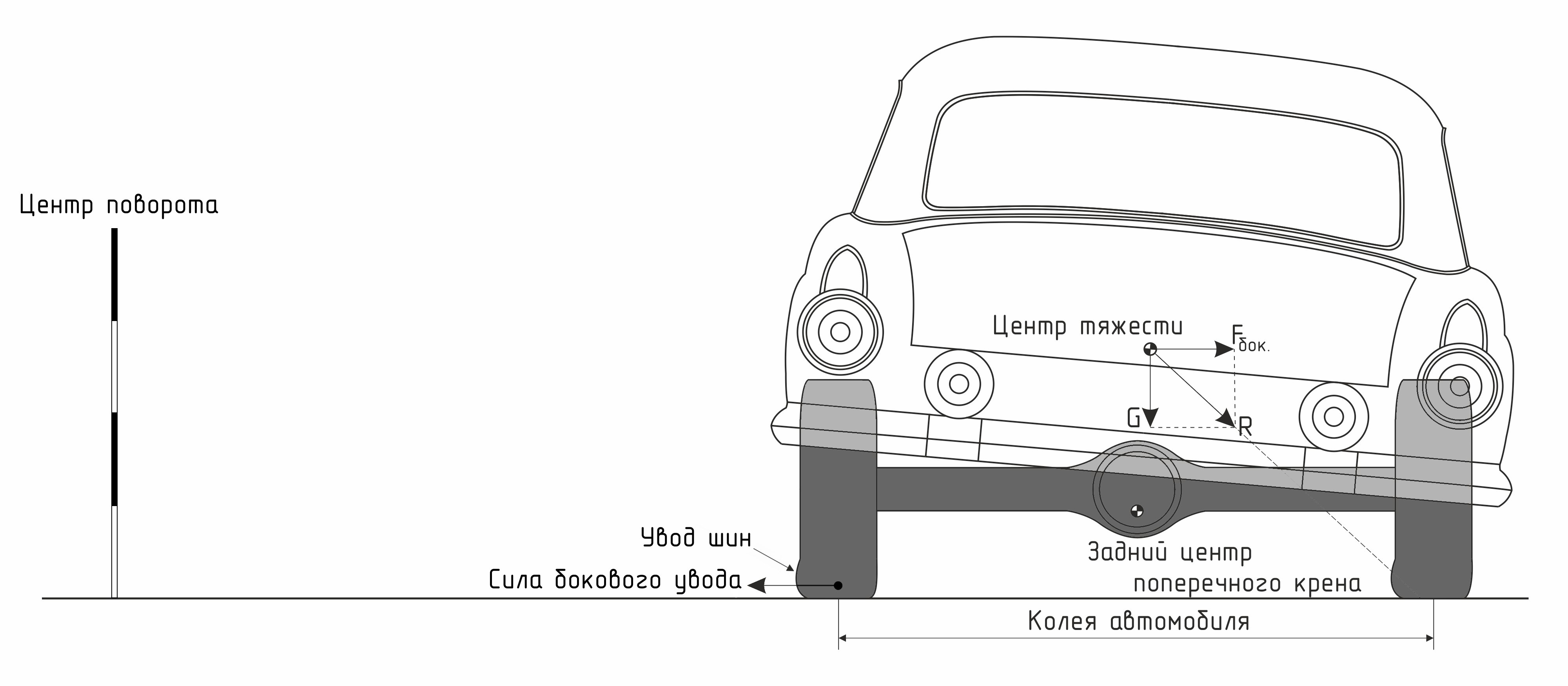 Turning car: rear suspension roll center, CG, centrifugal force, etc.